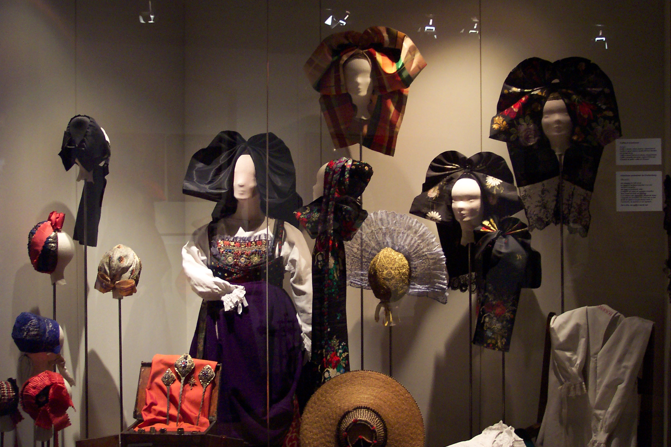 THIS is where the heads come from! It's very typical old Alsatian costume. Strasbourg, France